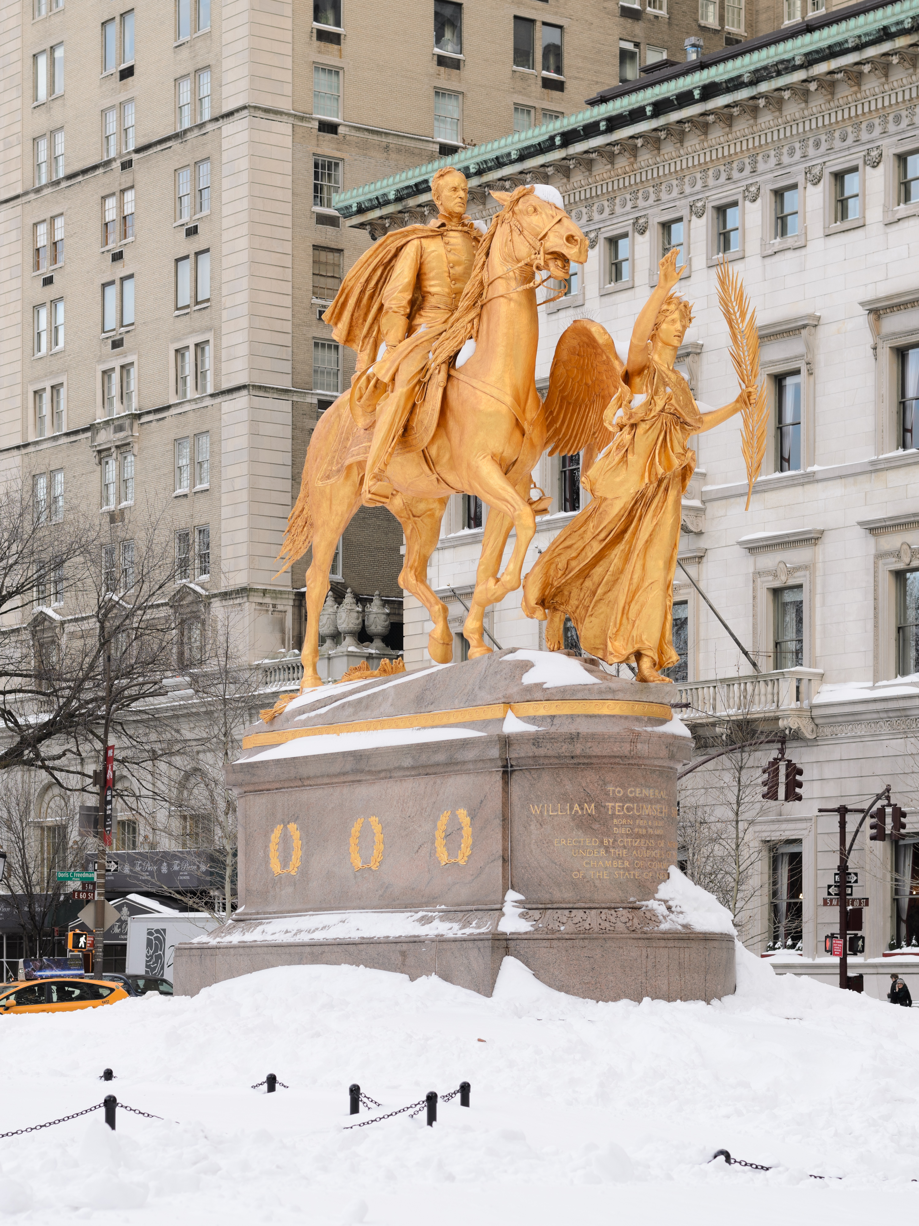 William Tecumseh Sherman Monument by Augustus Saint-Gaudens, New York City, after the January 2016 United States blizzard.